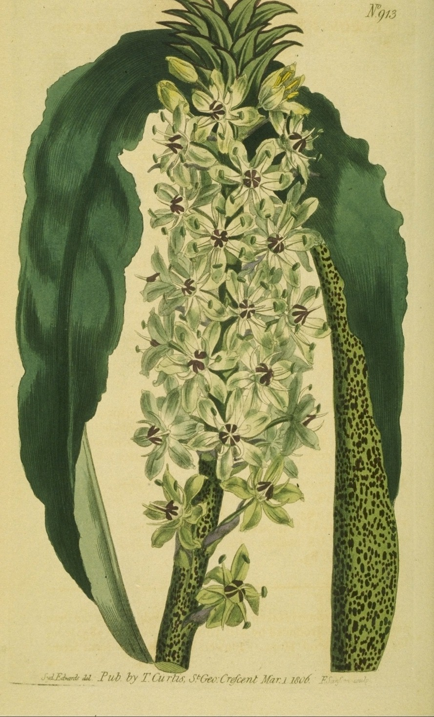 The Botanical Magazine, Plate No. 913: Eucomis punctata